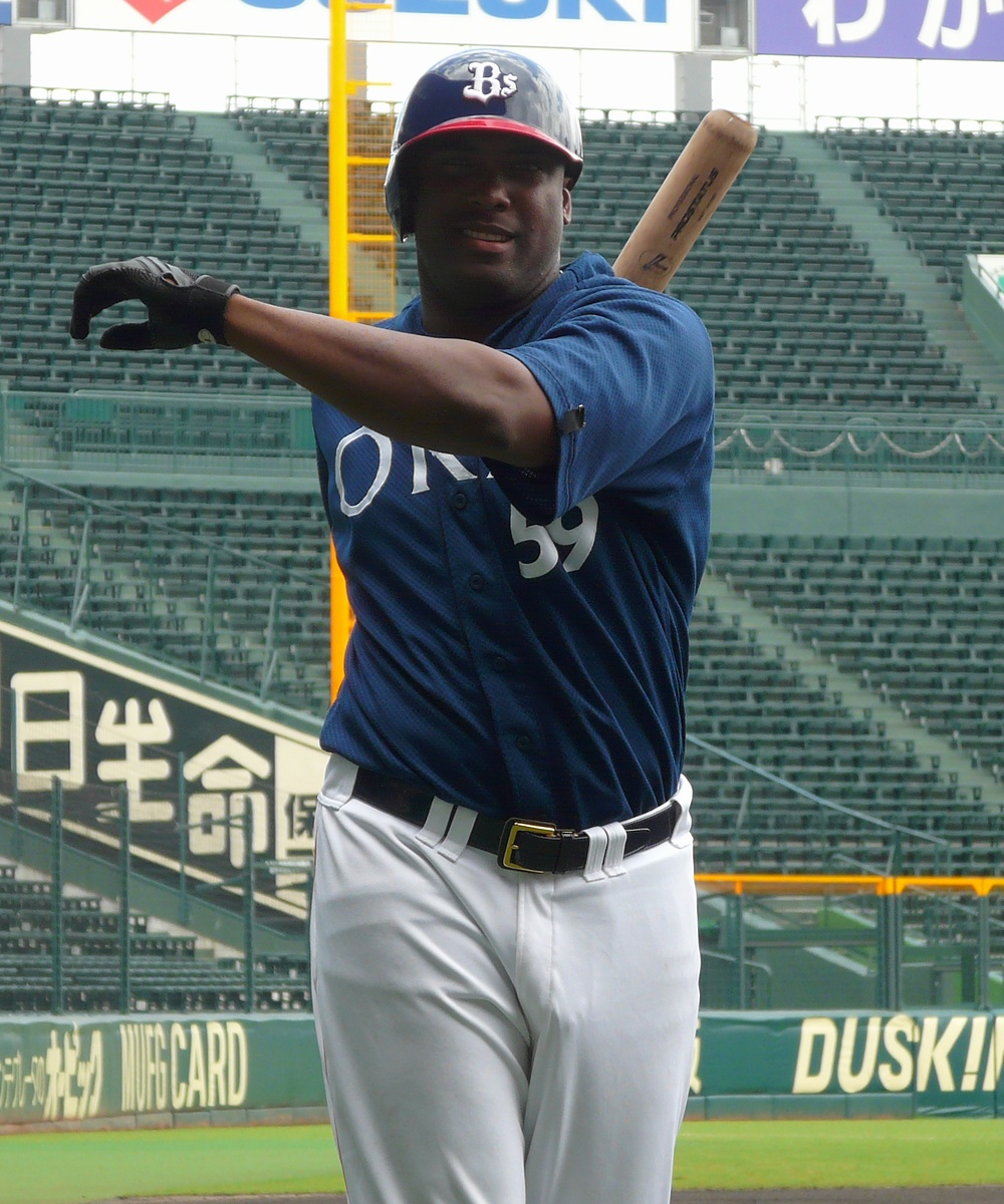 OB-Fernando-Seguignol20100704